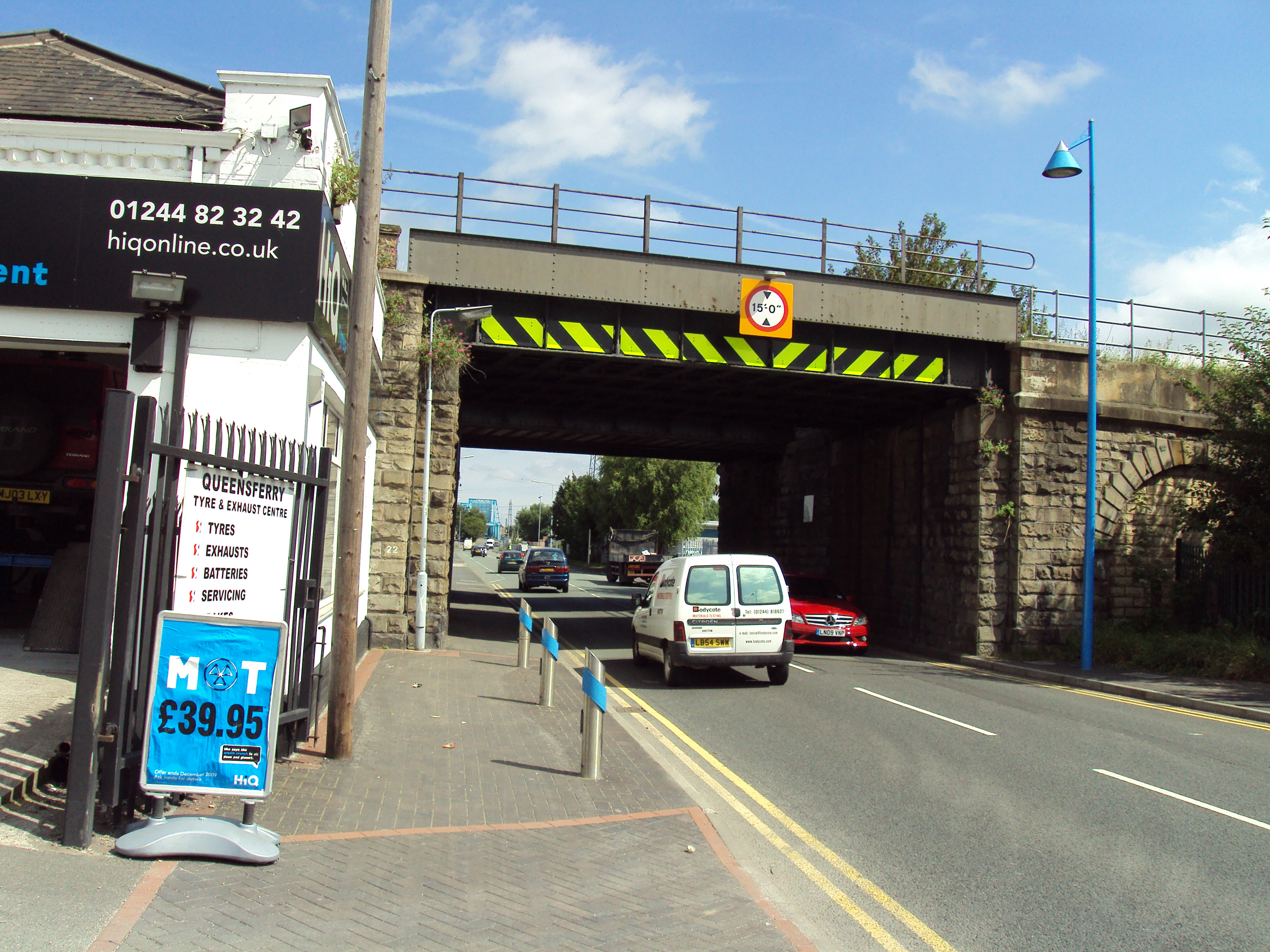 The North Wales coast railway line passes over the B5441 Station Road at Queensferry, Deeside, Flintshire, Wales.